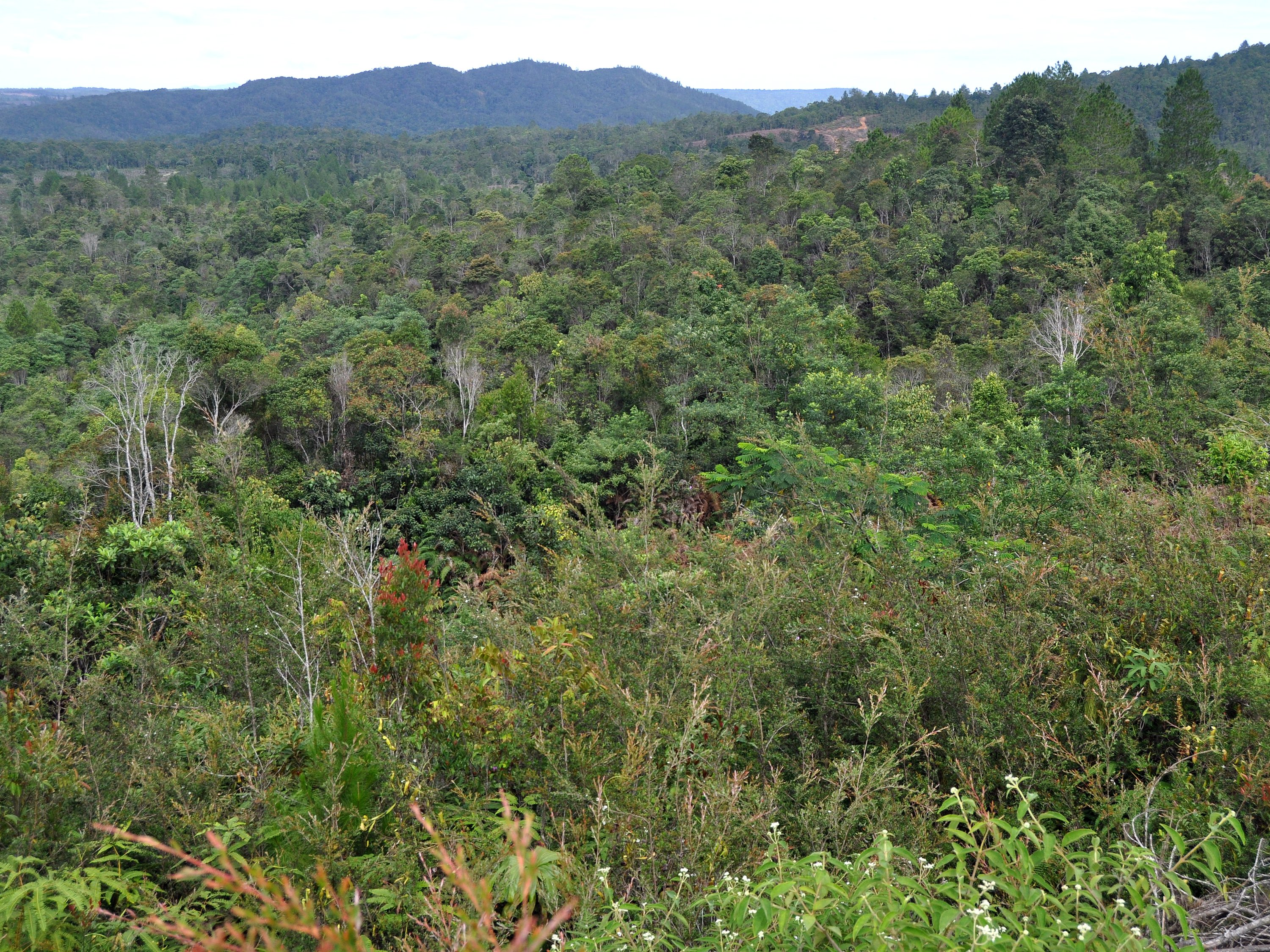 Leptospermum javanicum (syn. L. amboinense) in a secondary, submontane forest (lower right). North Sumatra, Indonesia. Alt. 1372 m asl.